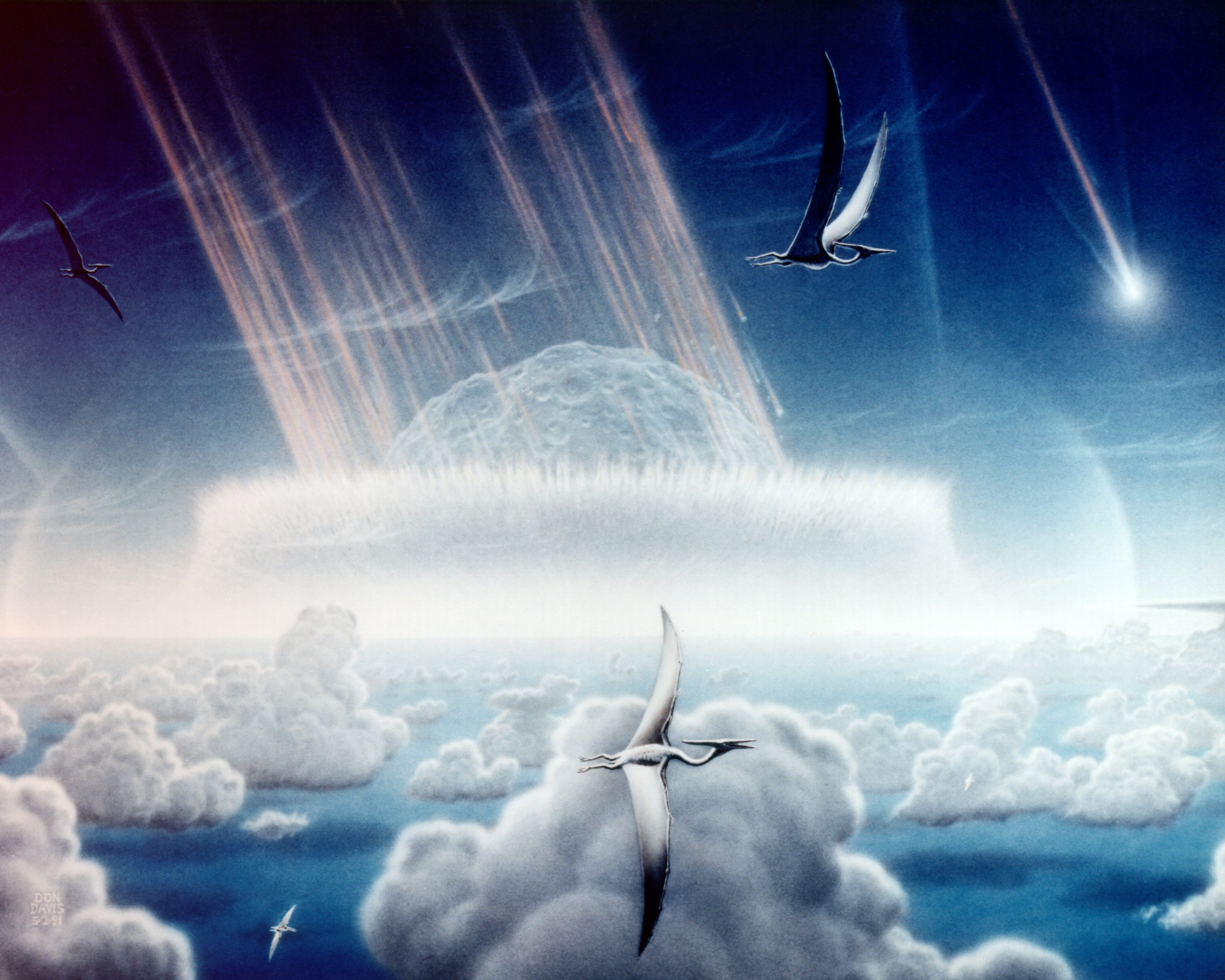 Chicxulub impact site December 28, 1994 This painting by Donald E. Davis depicts an asteroid slamming into tropical, shallow seas of the sulfur-rich Yucatan Peninsula in what is today southeast Mexico. The aftermath of this immense asteroid collision, which occurred approximately 65 million years ago, is believed to have caused the extinction of the dinosaurs and many other species on Earth. The impact spewed hundreds of billions of tons of sulfur into the atmosphere, producing a worldwide blackout and freezing temperatures which persisted for at least a decade. Shown in this painting are pterodactyls, flying reptiles with wingspans of up to 50 feet, gliding above low tropical clouds.